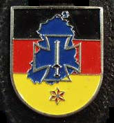 Internal coat of arms Stabskompanie Logistikbrigade Ost (StKp LogBrig Ost) of the Bundeswehr (Armed Forces of the Federal Republic of Germany). → Remarks on naming and categorization scheme